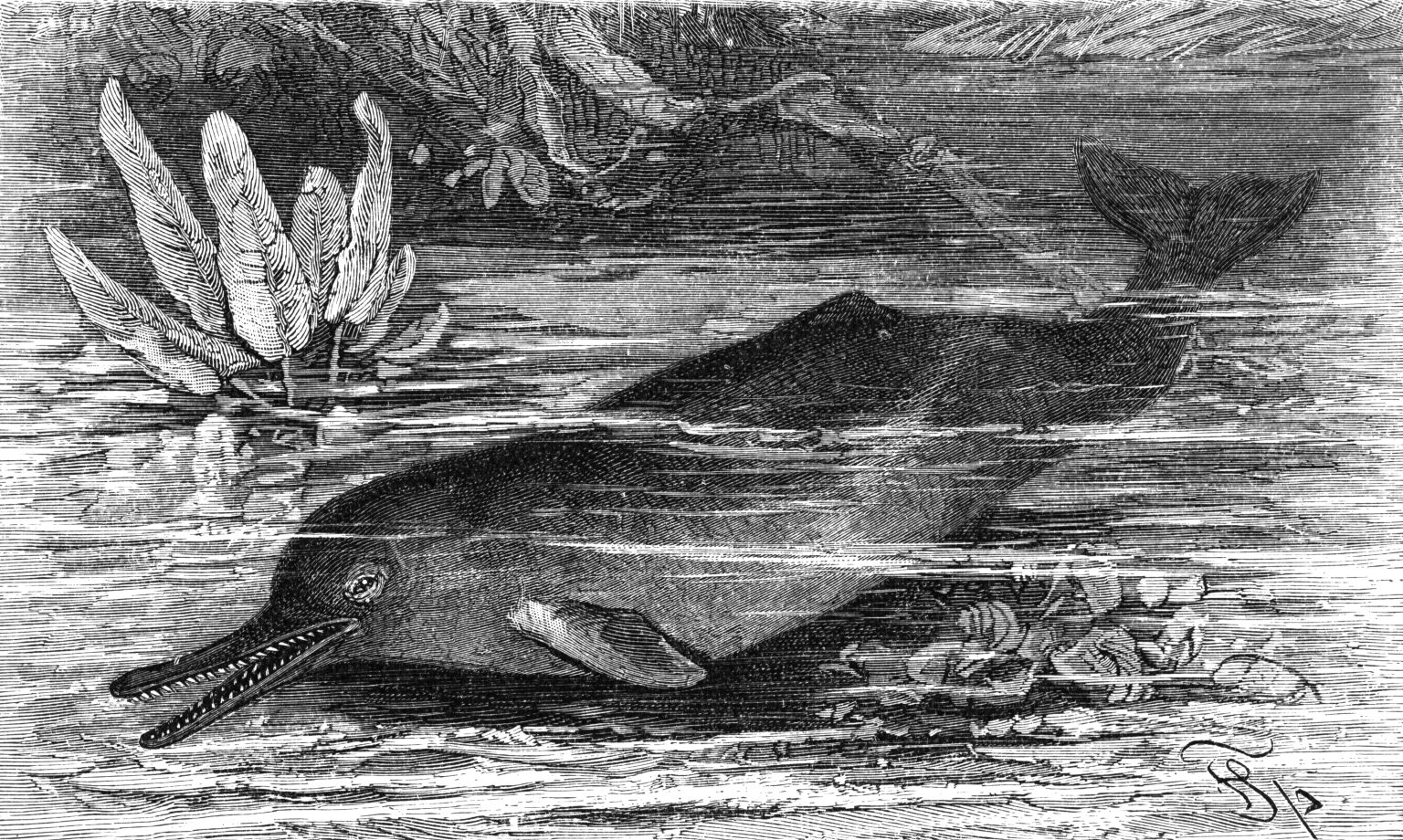 Translation (partly): "Indus river dolphin, Platanista gangetica Lebeck. 1/18 natural size" Size: 5.2 x 3.1 in² (13.3 x 8.0 cm²)